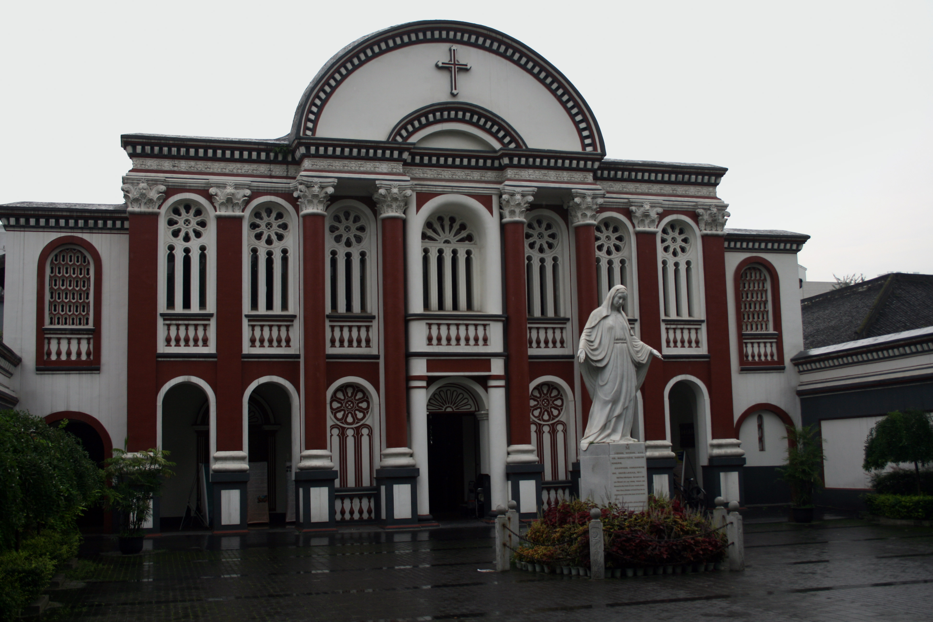 Chengdu Green Bridge Church